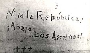 This is a historical picture from a March 22, 1937, edition of the newspaper "El Imparcial" taken during the Ponce Massacre. The Photo, taken by Carlos Torres Morales, a photo journalist for the newspaper El Imparcial, is of the wall where Bolivar Marquez, a Nationalist Cadet wrote "Viva la Republica, Abajo Los Asesinos" meaning "Long Live The Republic! Down With Murderers!" with his blood before he died. In accordance to the "Copyright Term and the Public Domain in the United States, 1 January 2009" [1] Images published with notice but copyright was not renewed from 1923 through 1963 are public domain due to copyright expiration. "El Imparcial" which went out of service 35 years ago, could not have renewed its copyright which expired. Therefore, since Puerto Rico fell under US copyright in 1937 as well as today, this would make the image public domain.